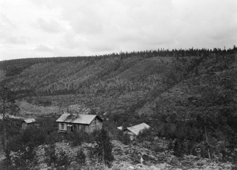 Kultala Crown Station at the Ivalojoki gold mining area, 1898.